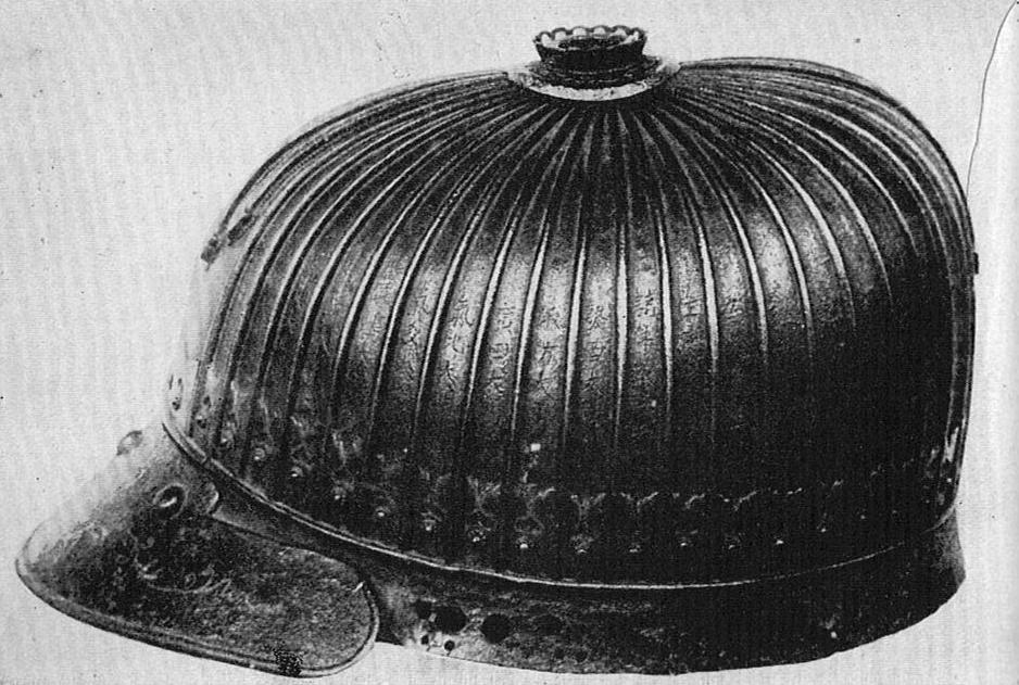 A Sujikabuto (a kind of Japanese war helmets), at Fujishima Shrine in Fukui, Japan